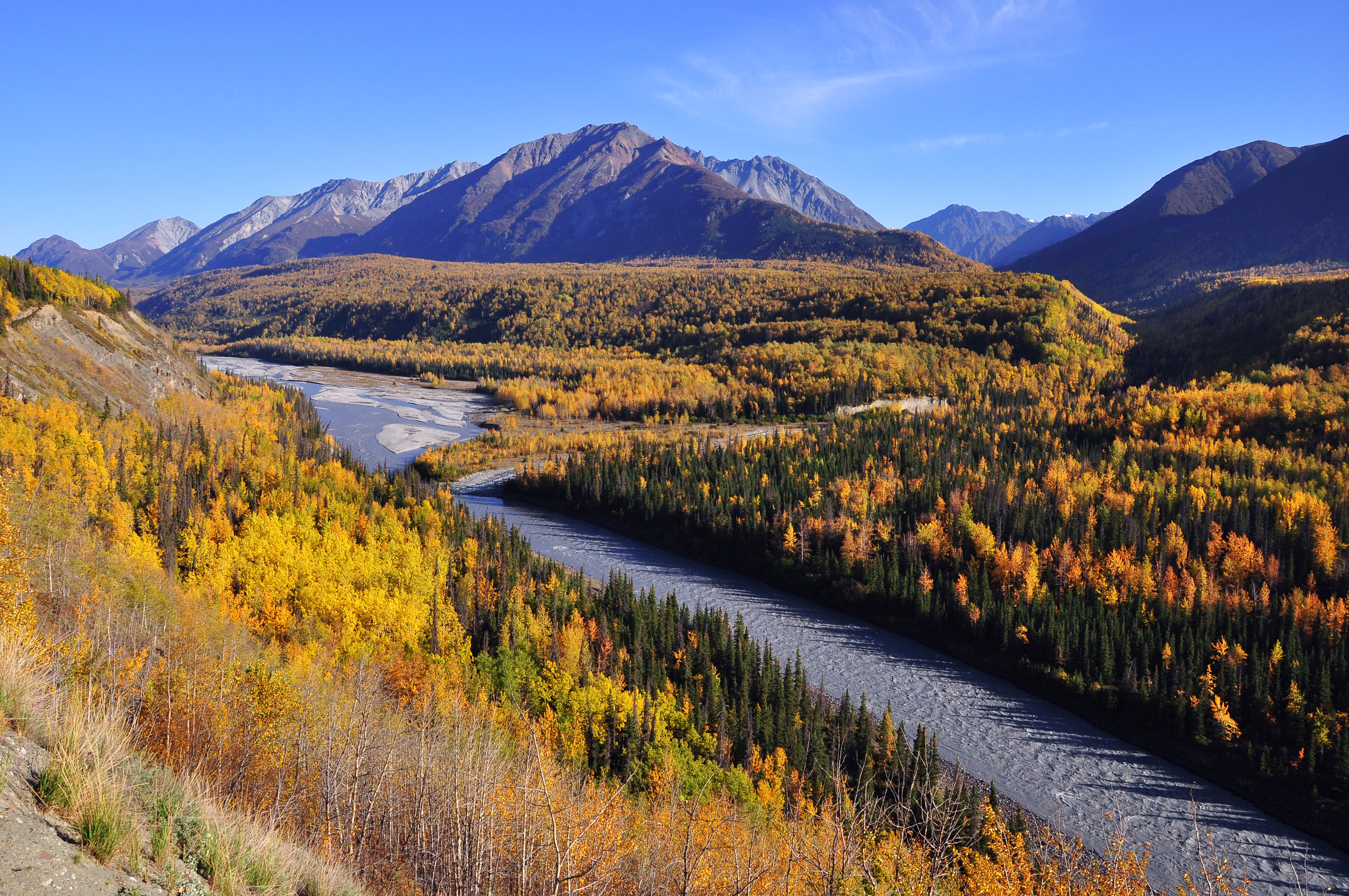 Beautiful Autumn colors along the world famous Glenn Highway.